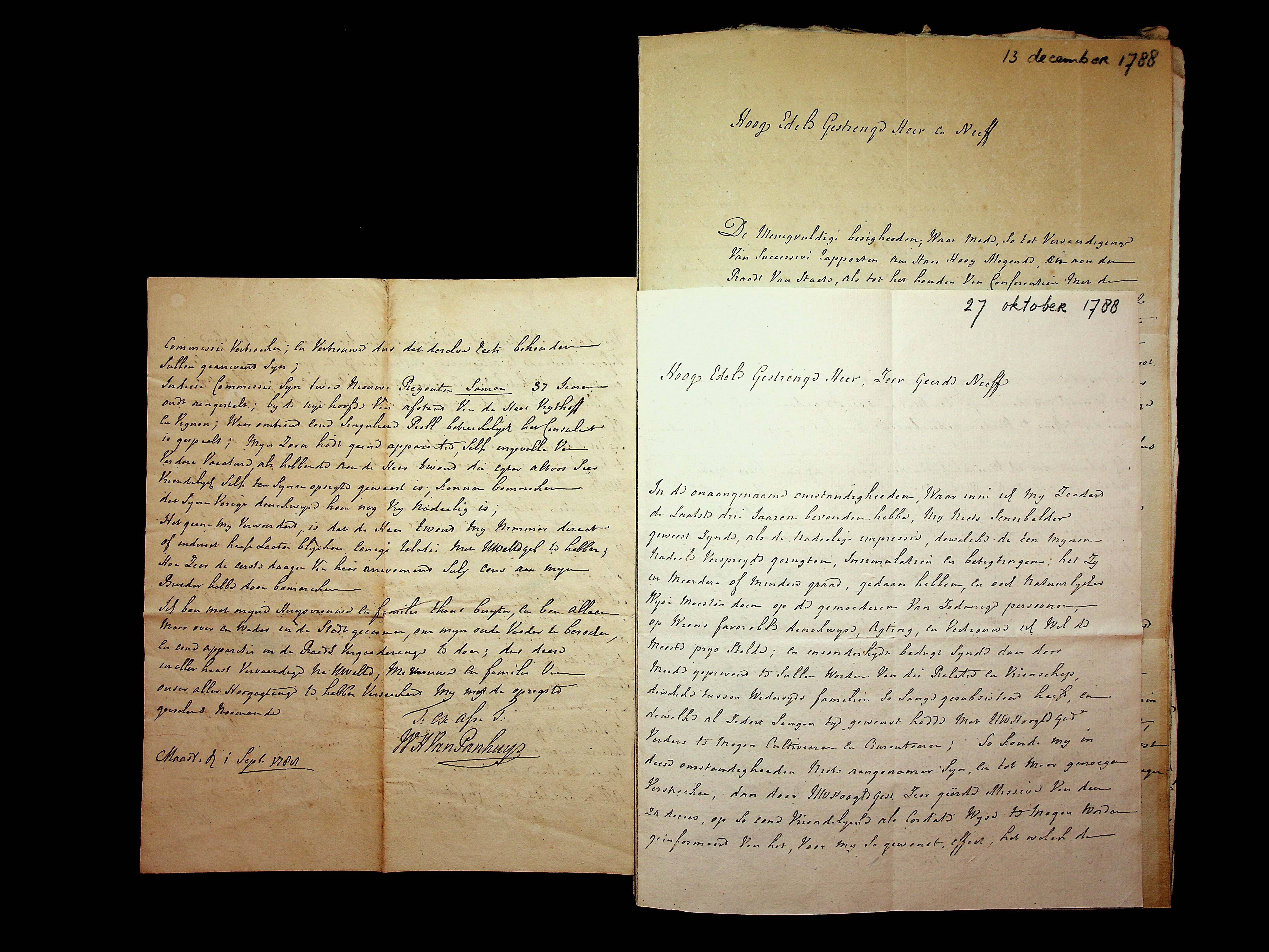 Fragment van het uit 15 pakken bestaande dossier in de zaak Willem Hendrik van Panhuijs bij de Raad van Brabant in Den Haag. De procureur-generaal van de Raad van Brabant, Van Oldenbarneveld genaamd Witte Tullingh, begon in 1797 een criminele procedure tegen Jan Hubert van Slijpe, ex-vice-hoogschout van Maastricht, luitenant-kolonel Jan Anthonie Christiaan de Salve de Bruneton, zijn echtgenote Arnoldina Elisabeth Heldewier, de landbouwers Pieter Habets en Nijst Trachts in Klimmen (wegens mijneed), Johannes Hendrik Rooth, notaris in Maastricht (wegens afleggen van valse verklaringen) in de zaak tegen Willem Hendrik van Panhuijs, rentmeester domeinen en geestelijke goederen in de Landen van Overmaze, die door voornoemden was beschuldigd van het onderhouden van contacten met de veroordeelde en verbannen ex-kolonel Seuillard de Leefdaal. Van Panhuys won de zaak. De verliezers werden veroordeeld; Van Slijpe stierf in gevangenschap in Den Haag voordat het vonnis was uitgesproken.